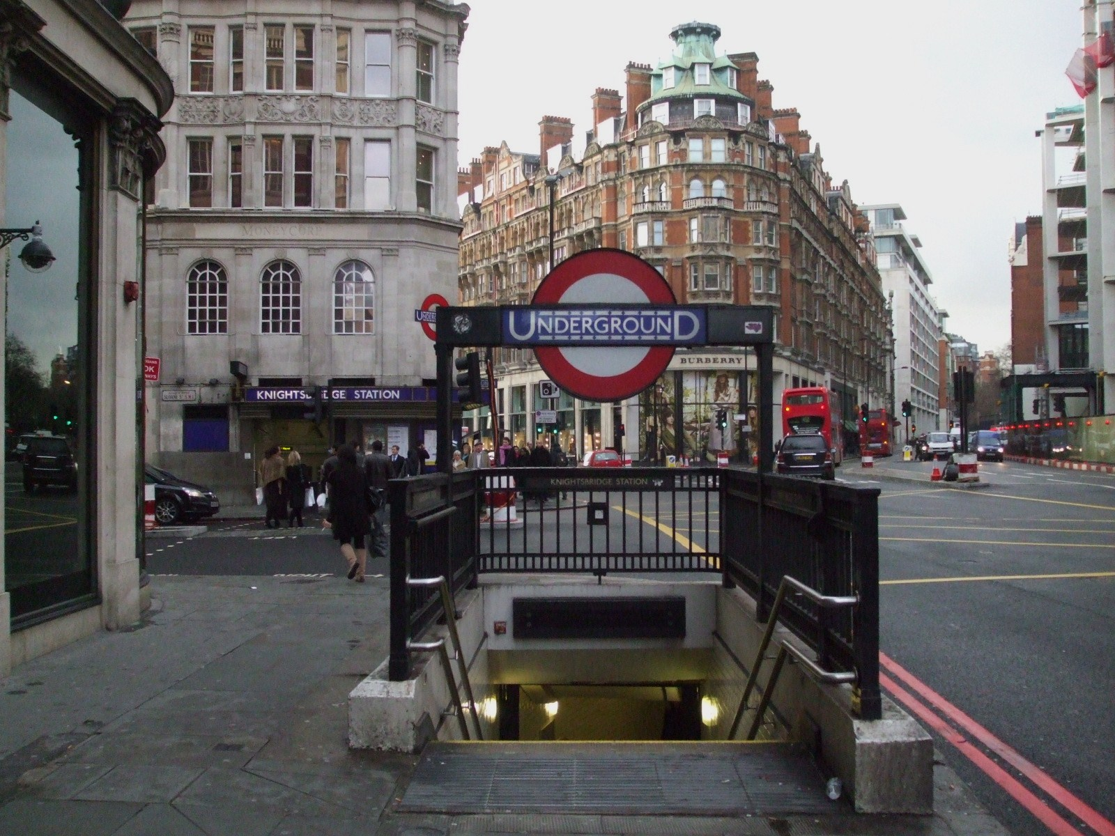 Knightbridge tube station eastern entrance